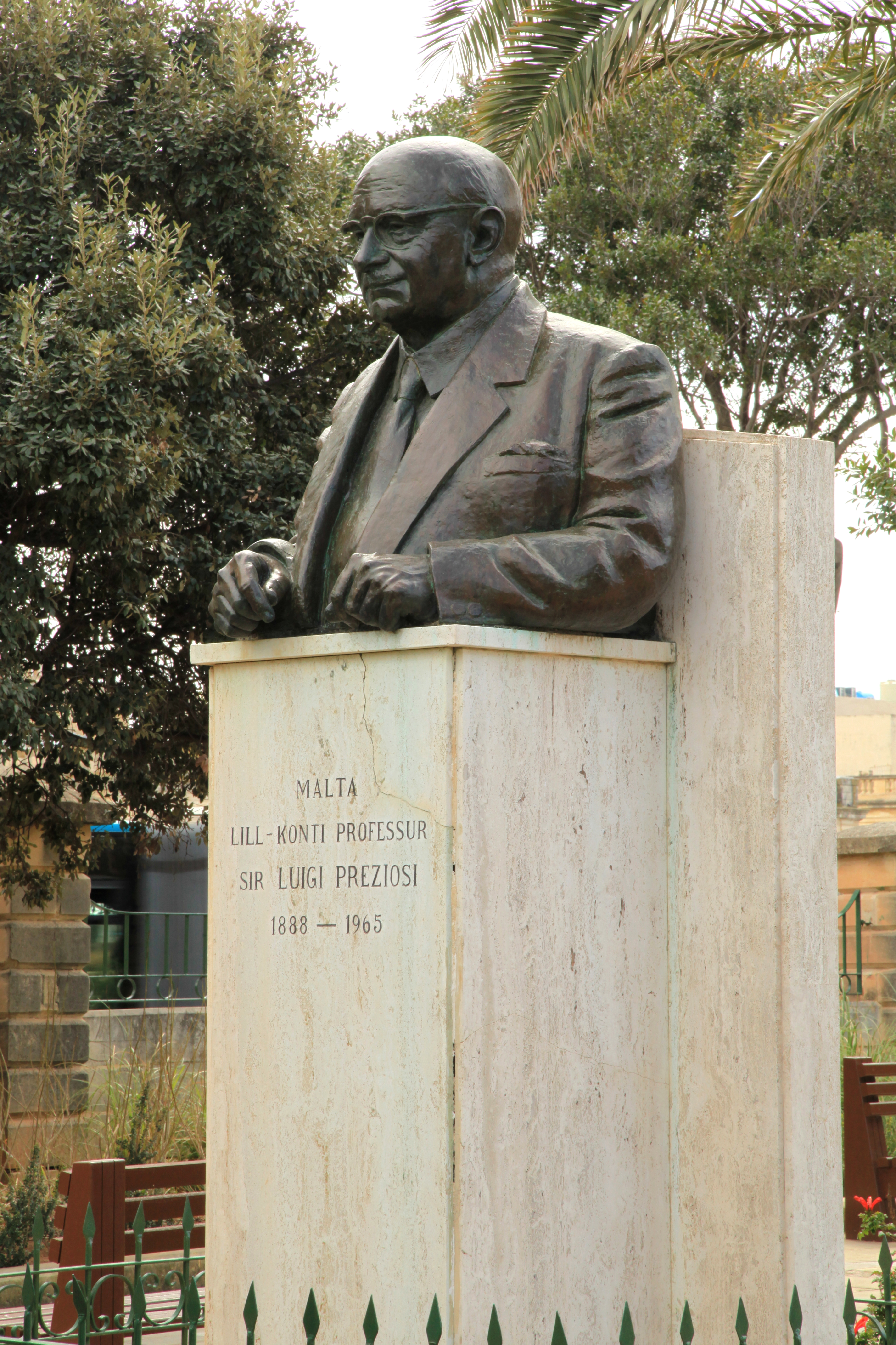 The Mall, Triq Sarria in Floriana, Malta